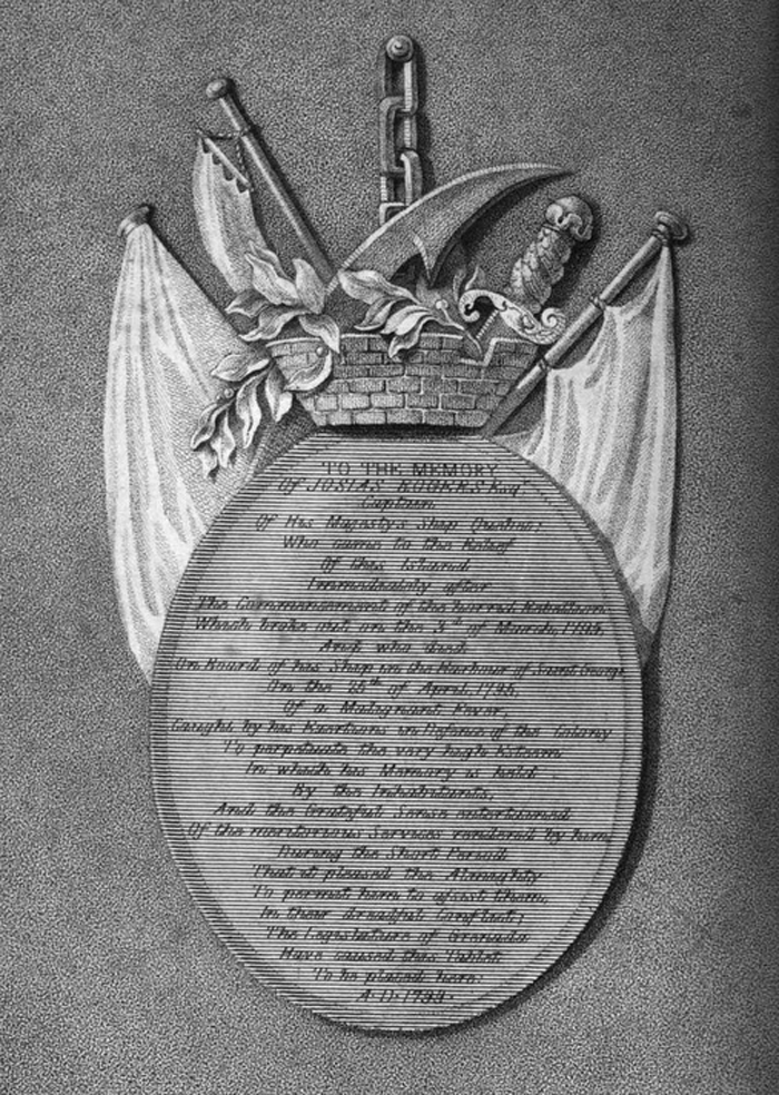 Monument dedicated to Josias Rogers erected by the assembly of Grenada